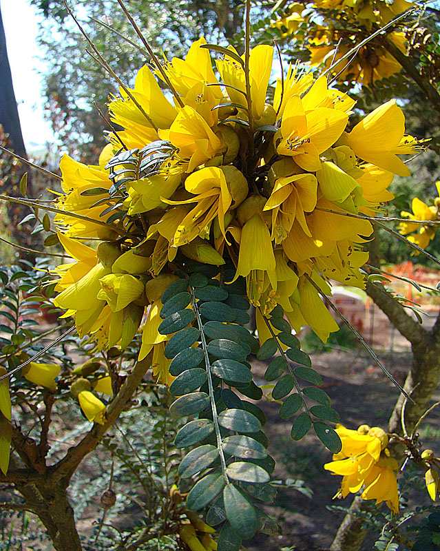 One of the shrubs known as Pelu in its home range of southern Chile, but also found in New Zealand. Here rooted at the Botanical Gardens of San Francisco. In context at